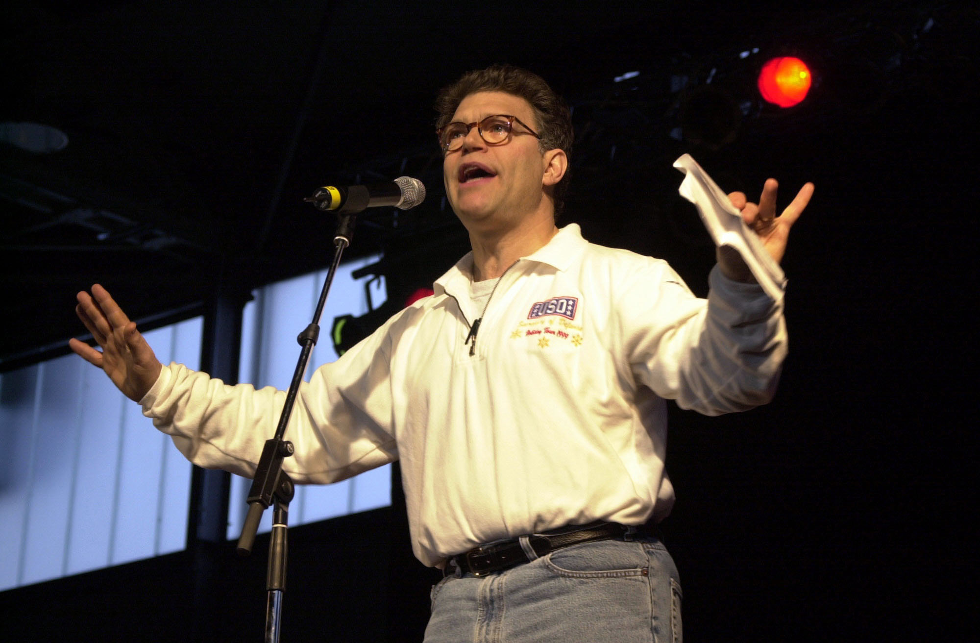 Comedian Al Franken (1951–) Alternative names Alan Stuart FrankenDescriptionAmerican politician, comedian and writerDate of birth 21 May 1951 Location of birth Manhattan Work period1973-presentWork location United StatesAuthority control : Q319084 VIAF: 86425630 ISNI: 0000 0001 1681 9289 LCCN: no93004145 NLA: 40034595 MusicBrainz: b0a3dda1-2cc0-404e-a26d-cdb3f302eb41 WorldCat creator QS:P170,Q319084 performs for military members at Ramstein Air Base, Germany, during the Secretary of Defense Holiday Show 2000, on December 17th, 2000.